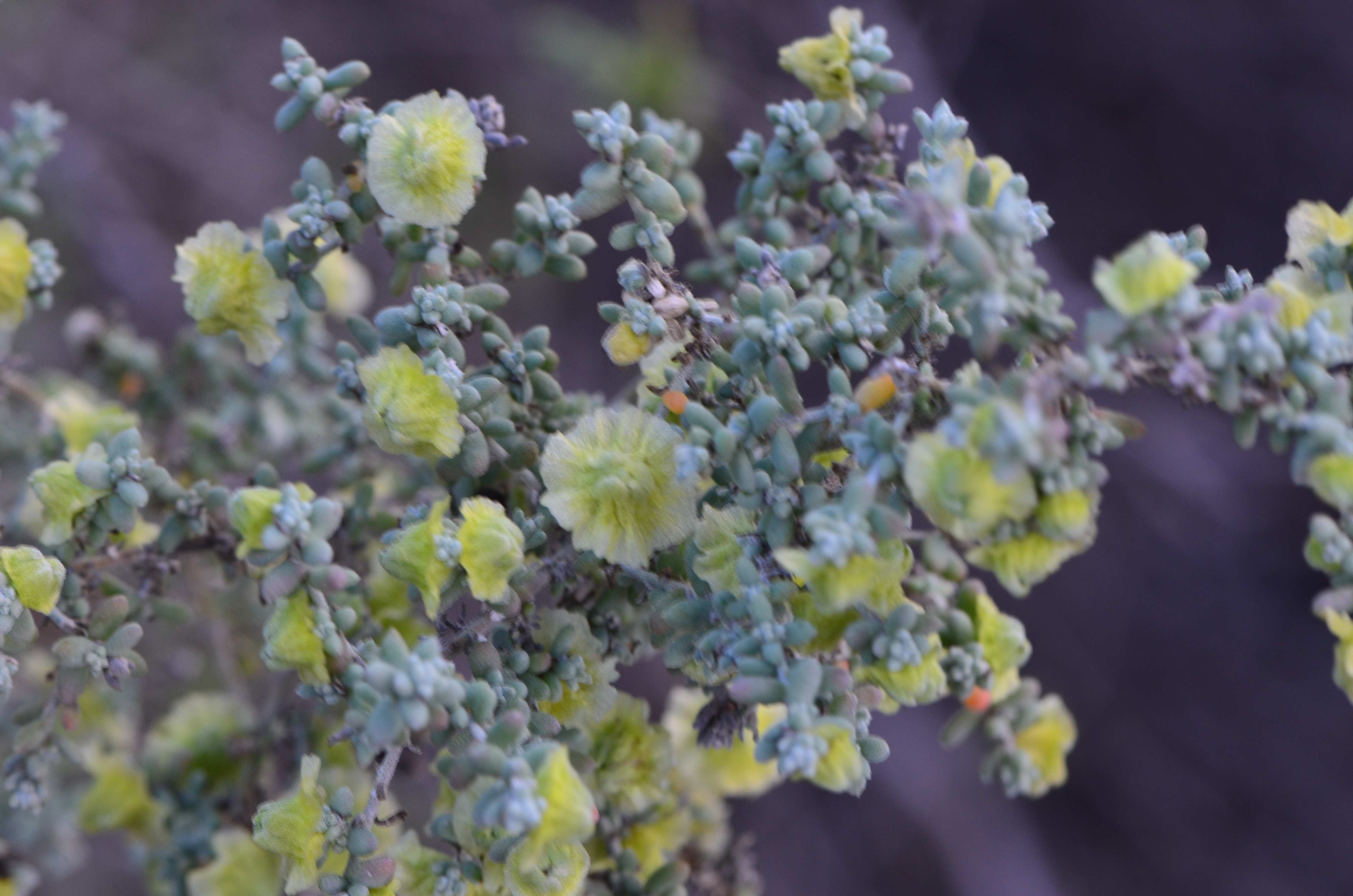 Maireana pyramidata, Bourke-Wanaaring Road, out of Bourke, New South Wales